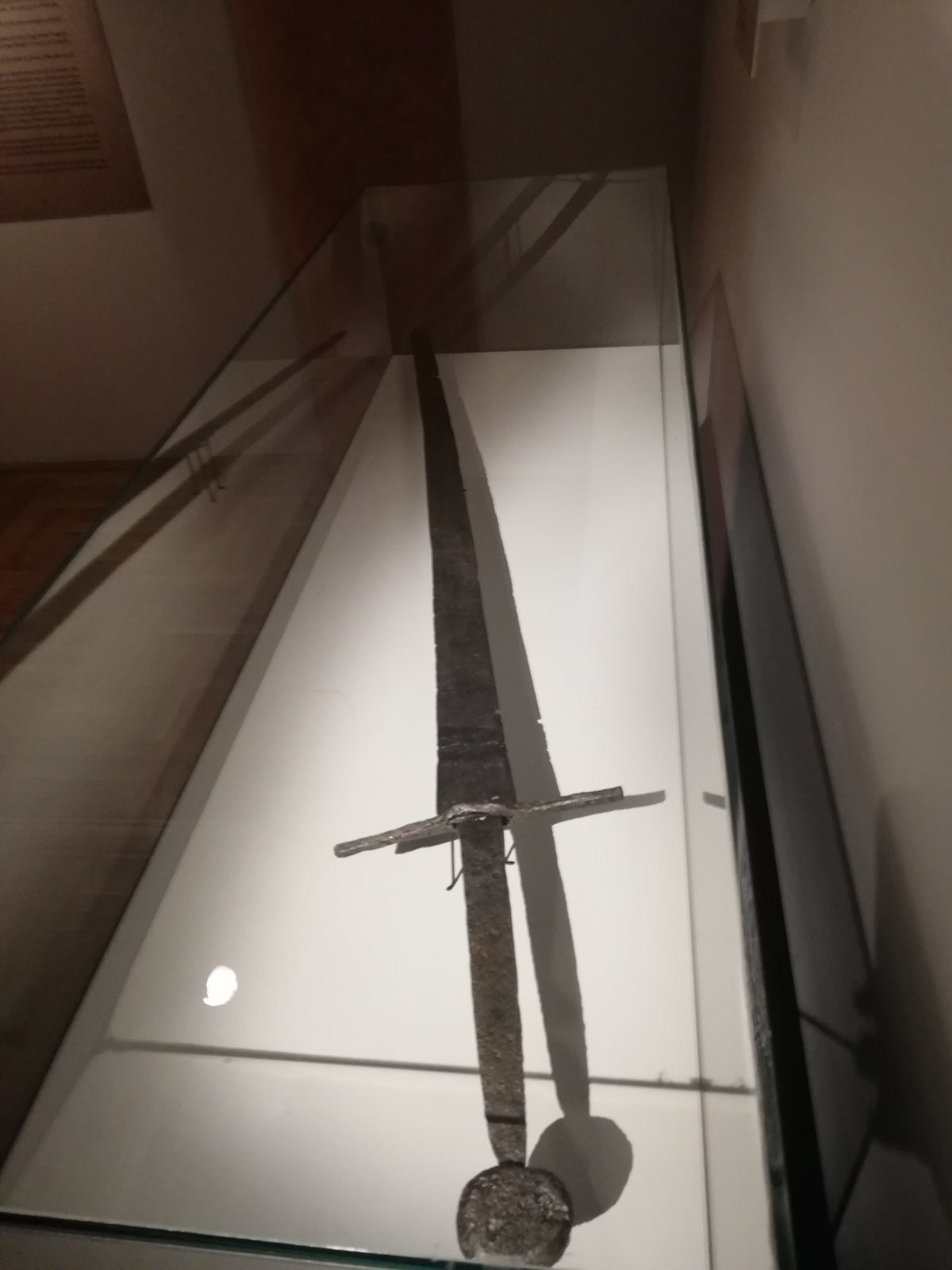 Sword used by Serbian amry in period of Nemanjic dynasty